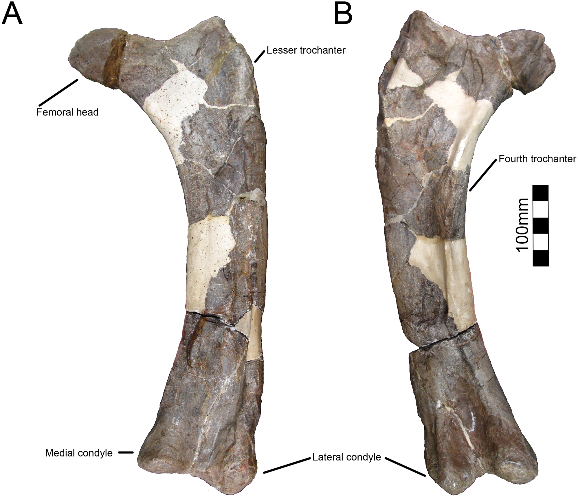 CPC 274 Left Femur- The left femur of CPC 274 in (A) cranial and (B) caudal views. Scale = 10 cm.